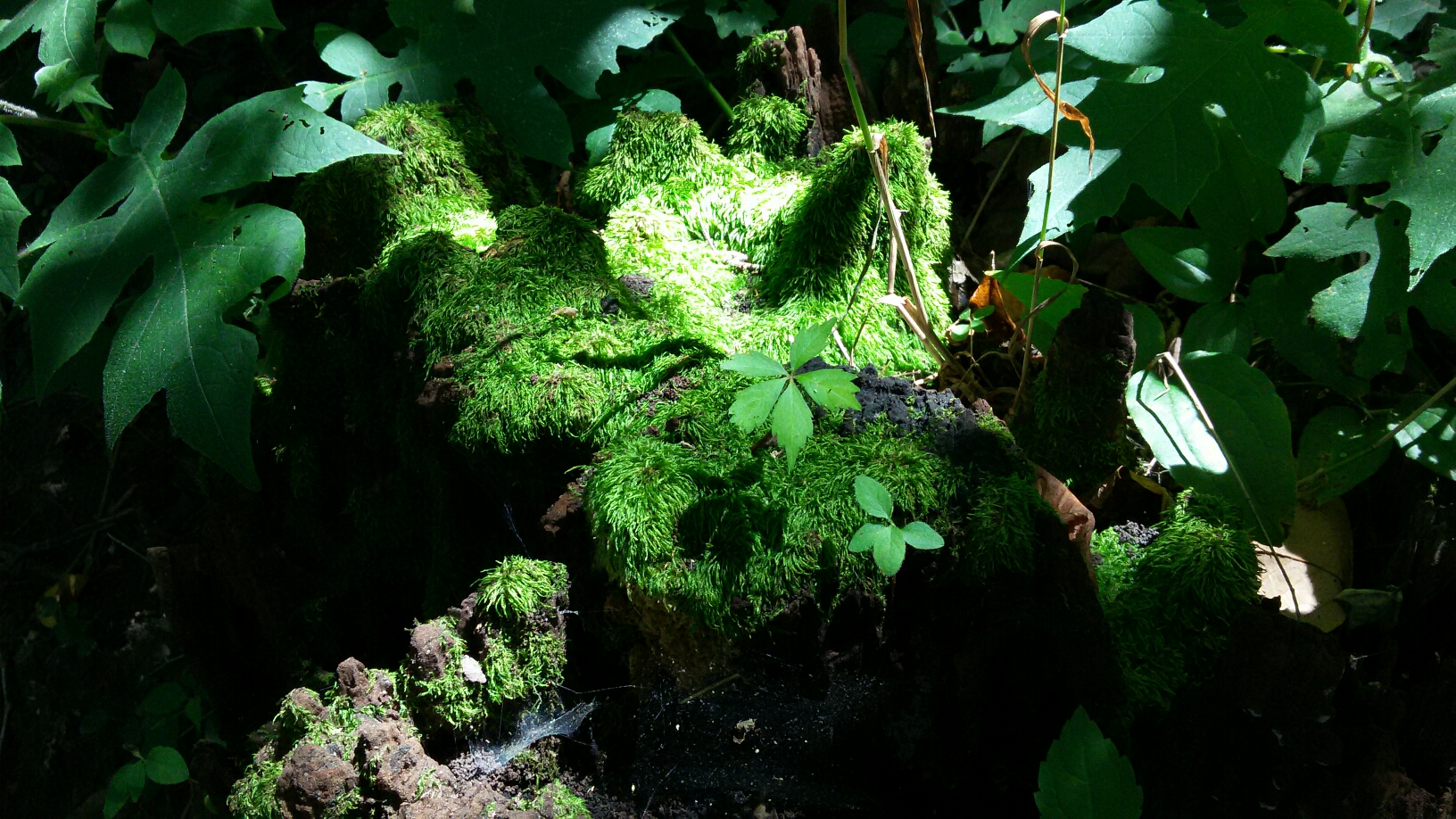 A patch of moss